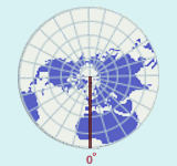 The prime meridian is a line of longitude that goes north-south through Greenwich, England.